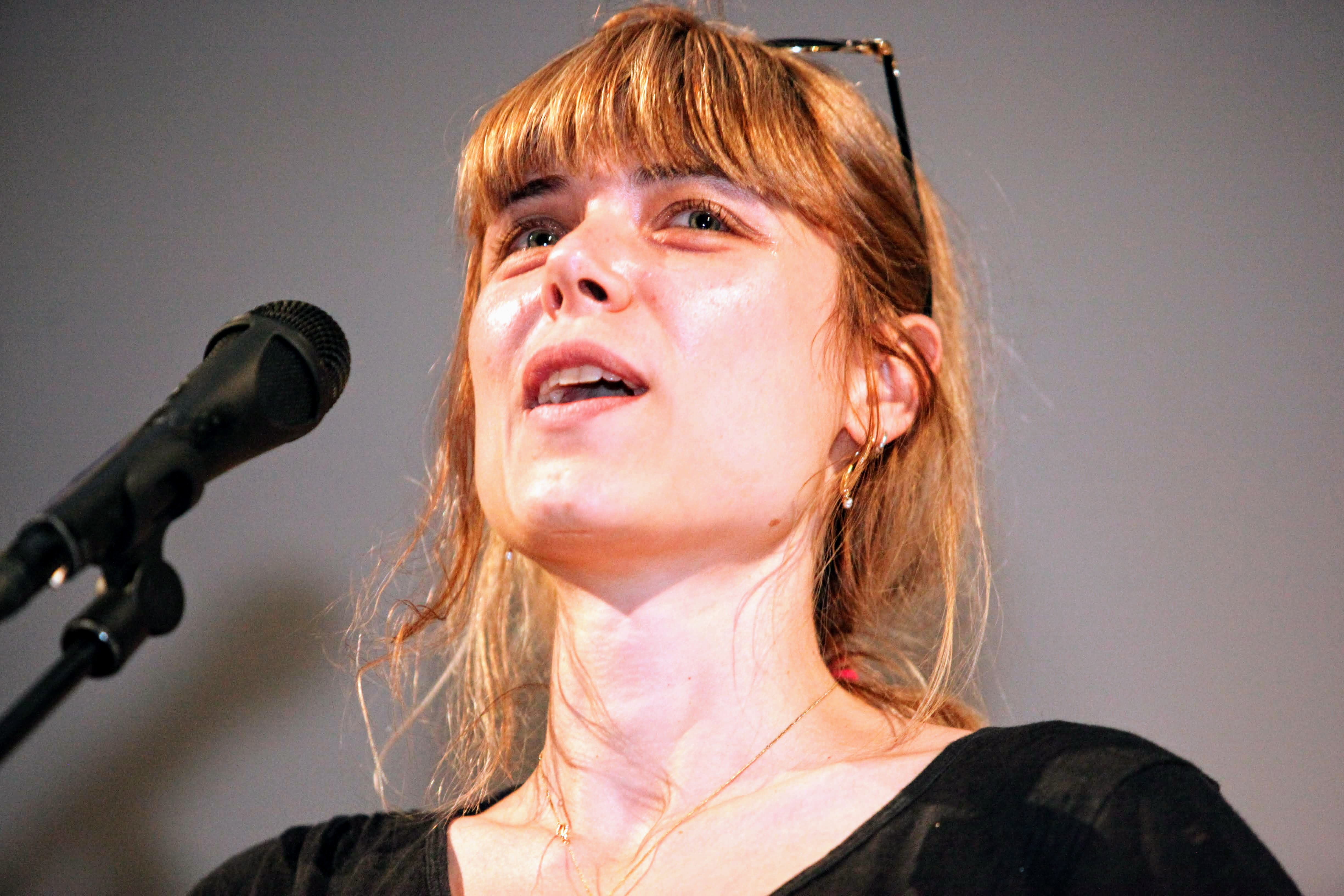 Croation film director and script writer Hana Jušić at the Karlovy Vary International Film Festival in Karlovy Vary on 5 July 2017. There she presented her social drama "Quit staring at my Plate".